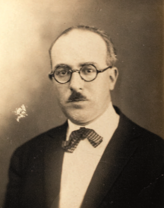 Pessoa ID card foto 1928